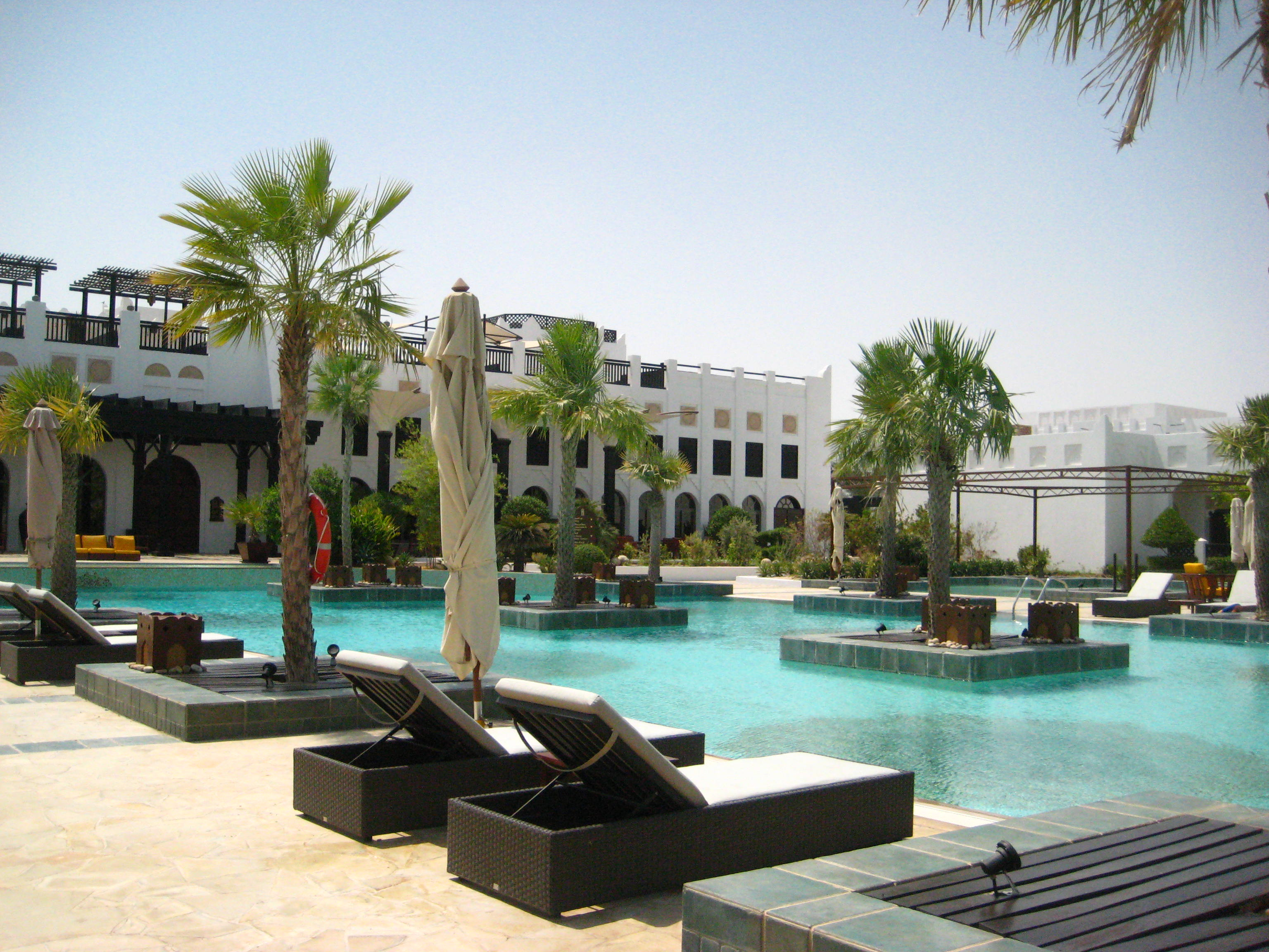 Sharq Village and Spa in the Ras Abu Aboud district of Doha, Qatar.